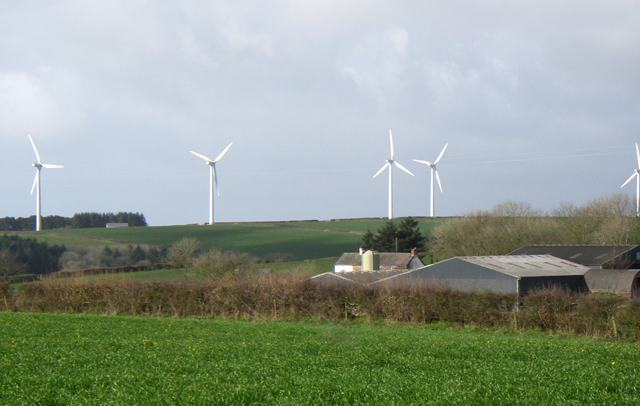 Wind Farm Wind farm near Pendine.